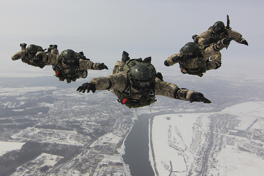 Russian Special Operations Forces photo from 27 February special operations forces day gallery.